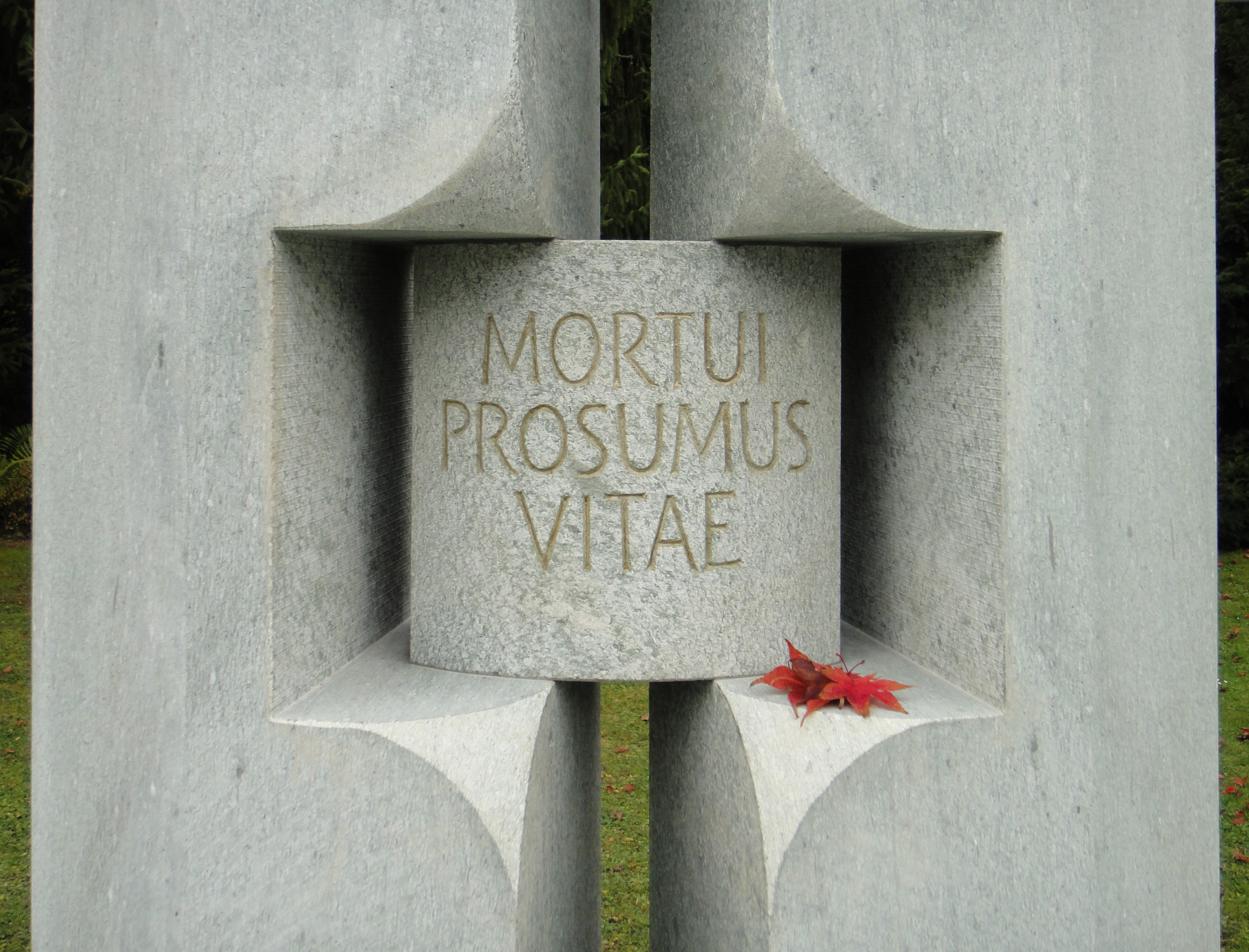 Detail of the communal grave for body donors at Bremgarten cemetery, Bern, Switzerland. The inscription reads: "Even in death do we serve life".